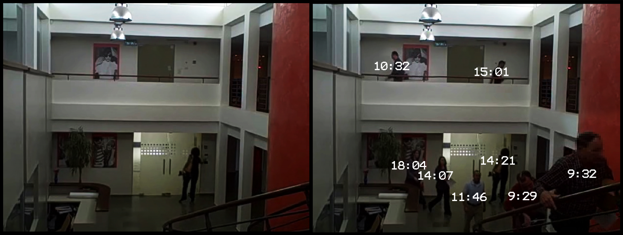 Video Synopsis is a proprietary image-processing technology that creates a summary of the original full length video. The synopsis is made possible by simultaneously presenting multiple objects and activities that have occurred at different times.